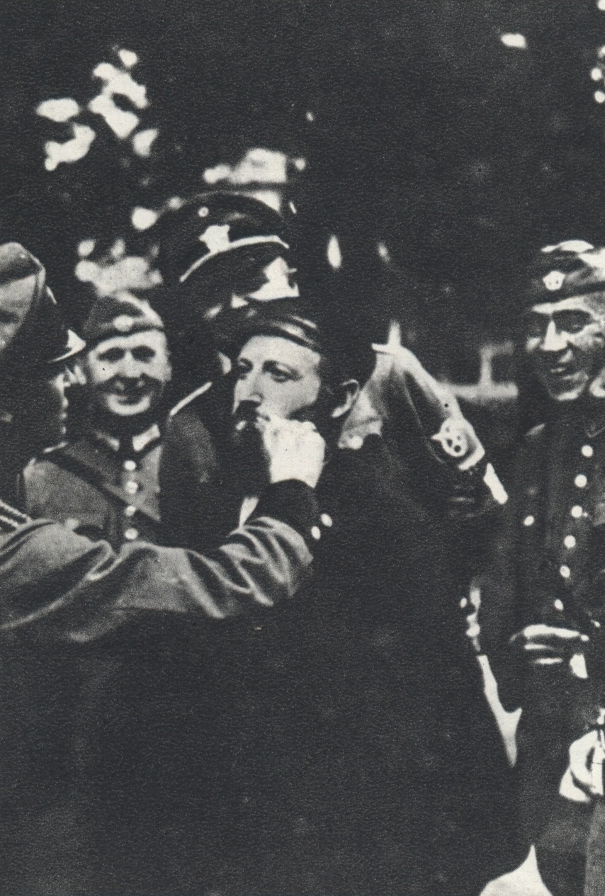 Jewish man being humiliated by German soldiers. Warsaw, autumn 1939.